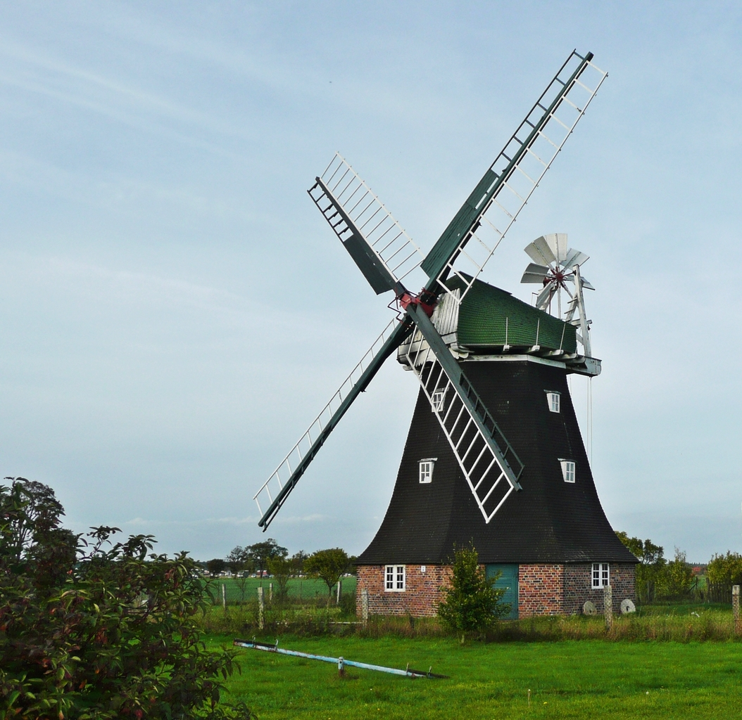 This photo shows the smock mill in Rövershagen. The mill was built in 1881 and had been in operation until 1963.